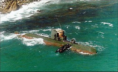 During 1996 this North Korean submarine floundered within 50 meters of shore.North Korea will attempt to penetrate ROK rear areas in war just as certainly as they historically have done during the armistice.